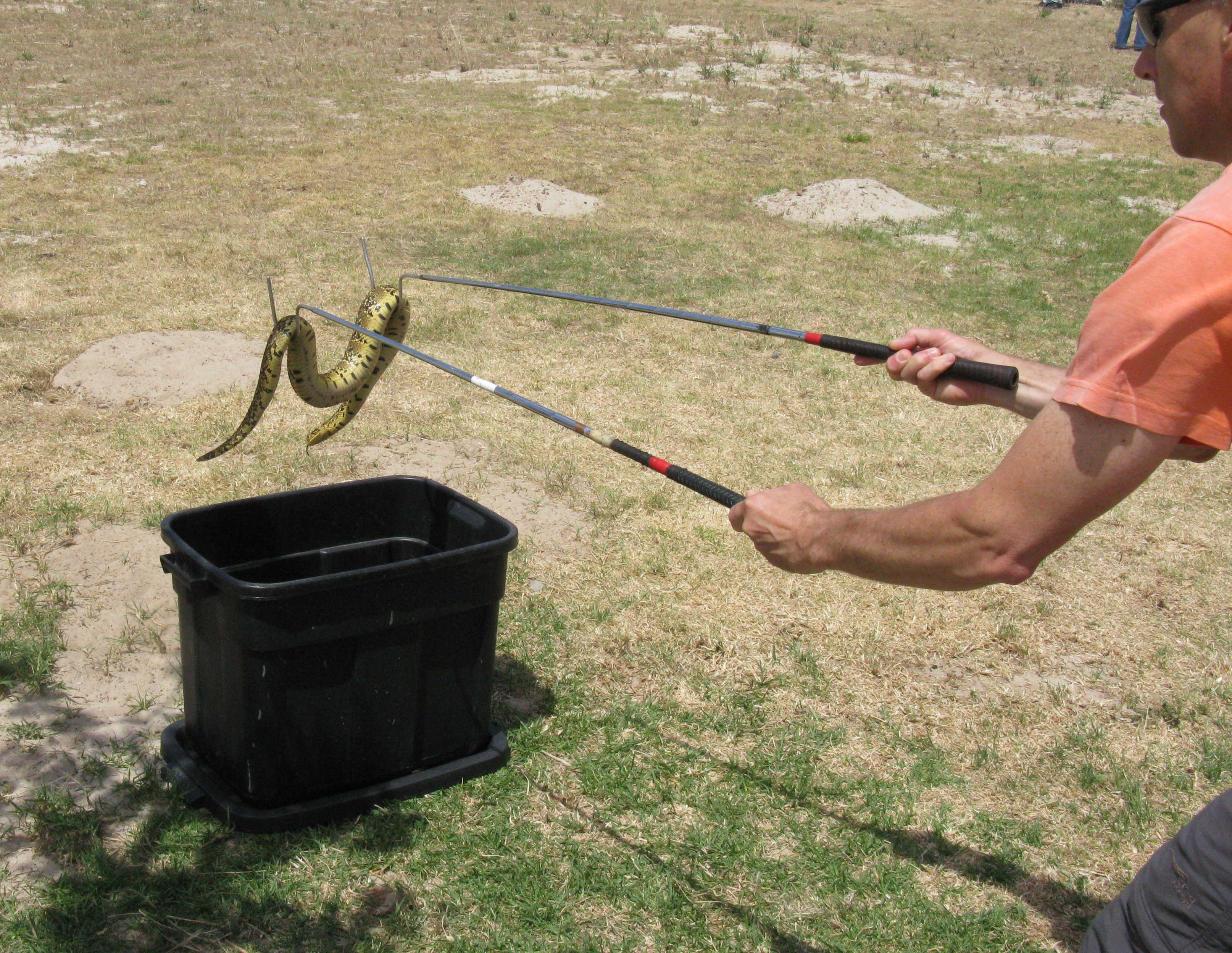 Demonstrating how to handle the Puff Adder, Bitis arietans, using two snake hooks; handling such a heavy snake with just one hook is prone to cause injury to the animal. Because of their strength and fast strike, it is hazardous to handle them with one hand and one hook in the manner applied to say, cobras.